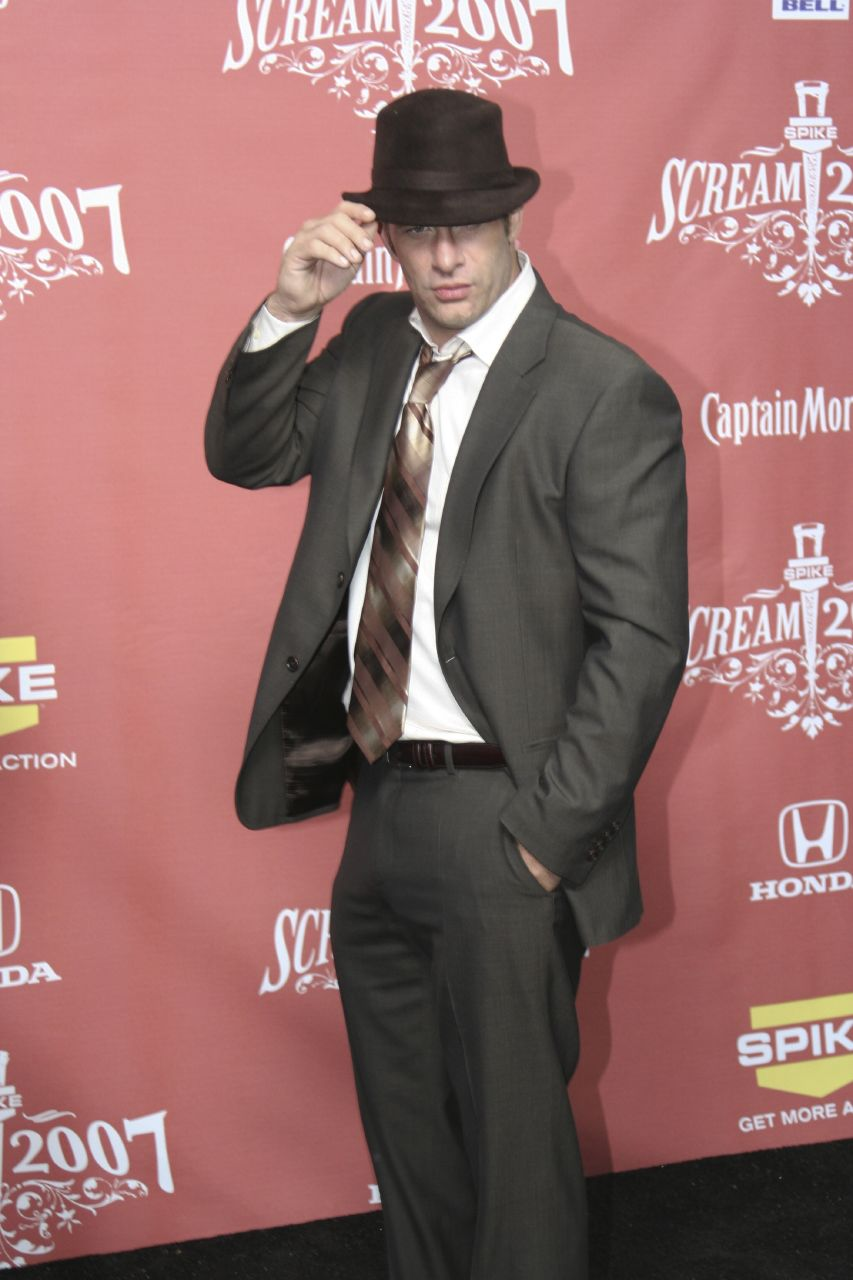 American actor Thomas Jane. Taken at the 2007 Scream Awards.